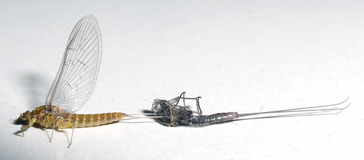 A baetid mayfly (Cloeon sp. or Procloeon sp.) emerging from its exuvia.